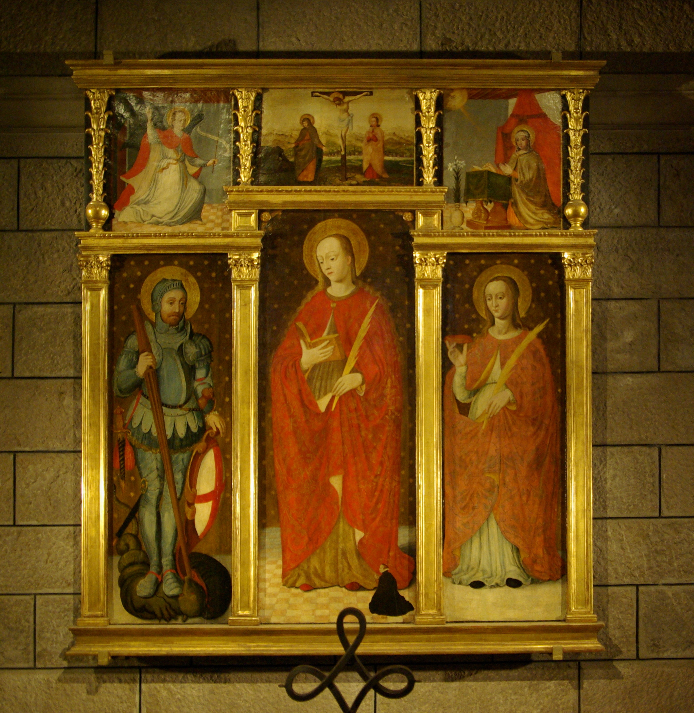 Monaco, cathedral Notre-Dame-Immaculée, Sainte Devote